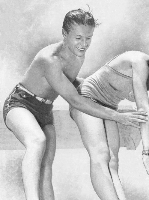 1938 Richard Degener Olympic Springboard Diver with Kay Kistner Press Photo